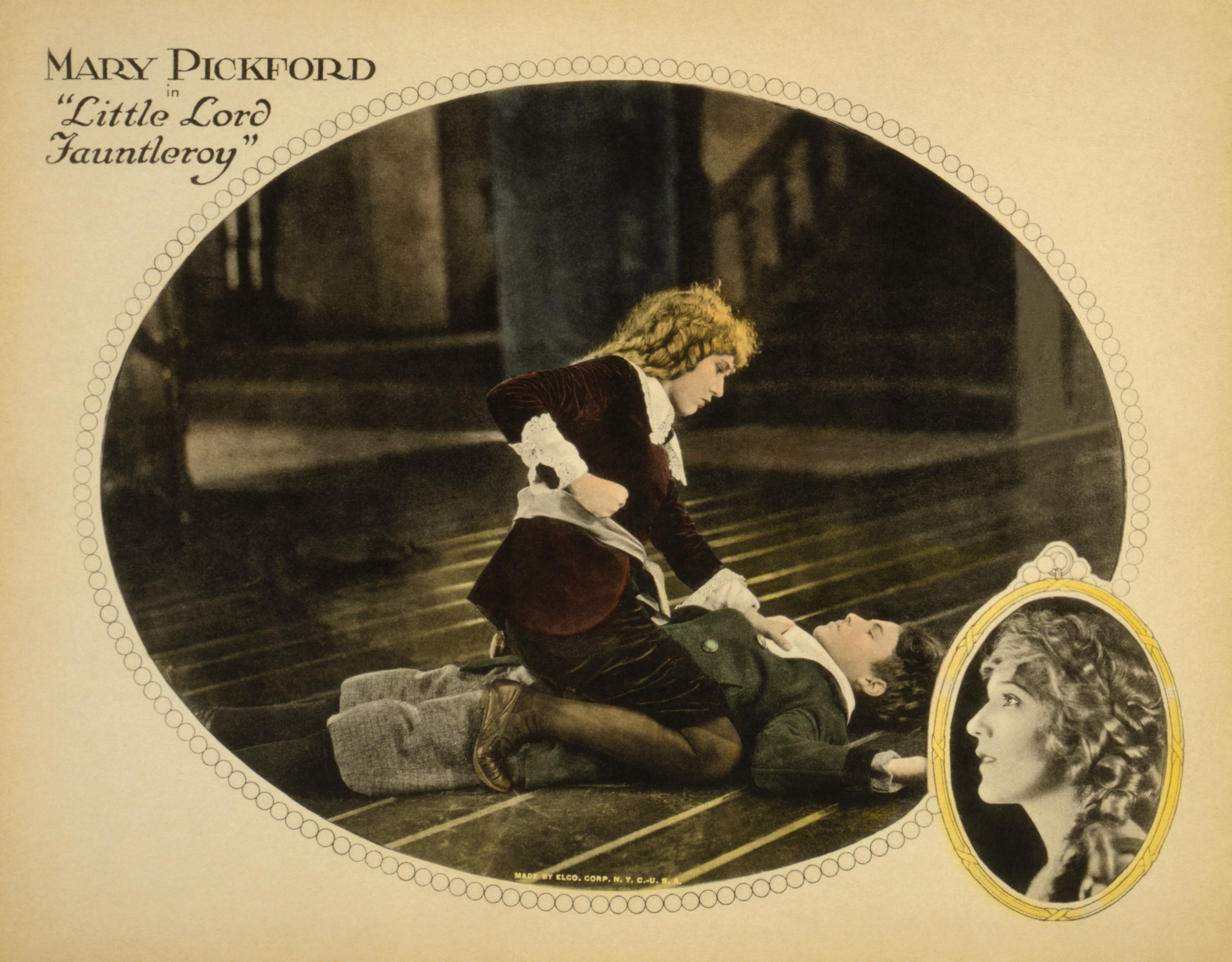 Lobby card showing Mary Pickford about to punch actor Francis Marion during a scene from the film Little Lord Fauntleroy (1921). 1 photomechanical print : collotype, color.